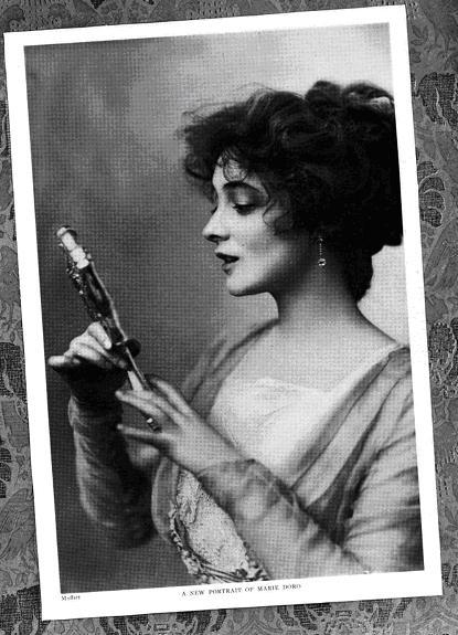 Actress Marie Doro